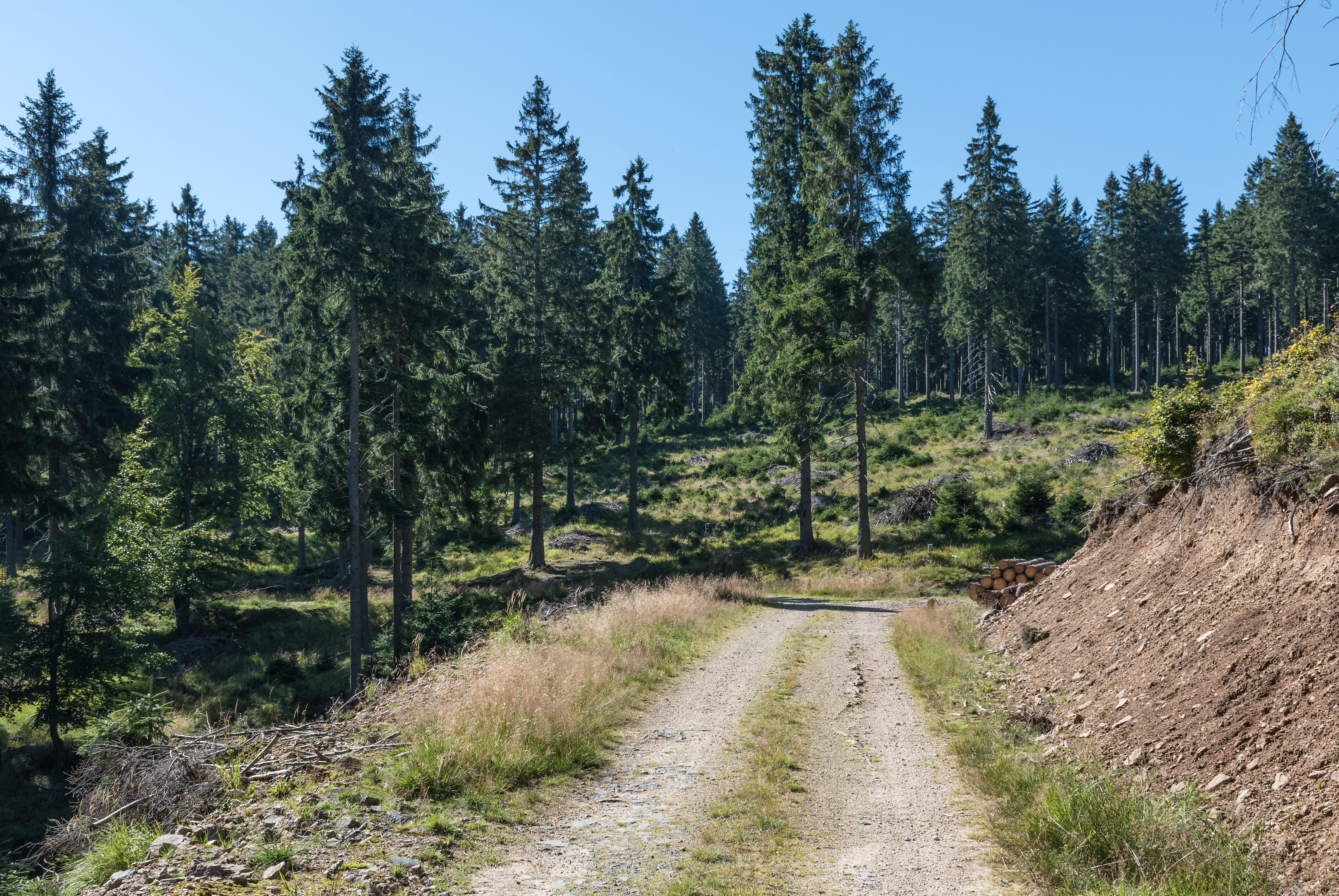 Sucha Road, Bialskie Mountains, Sudetes